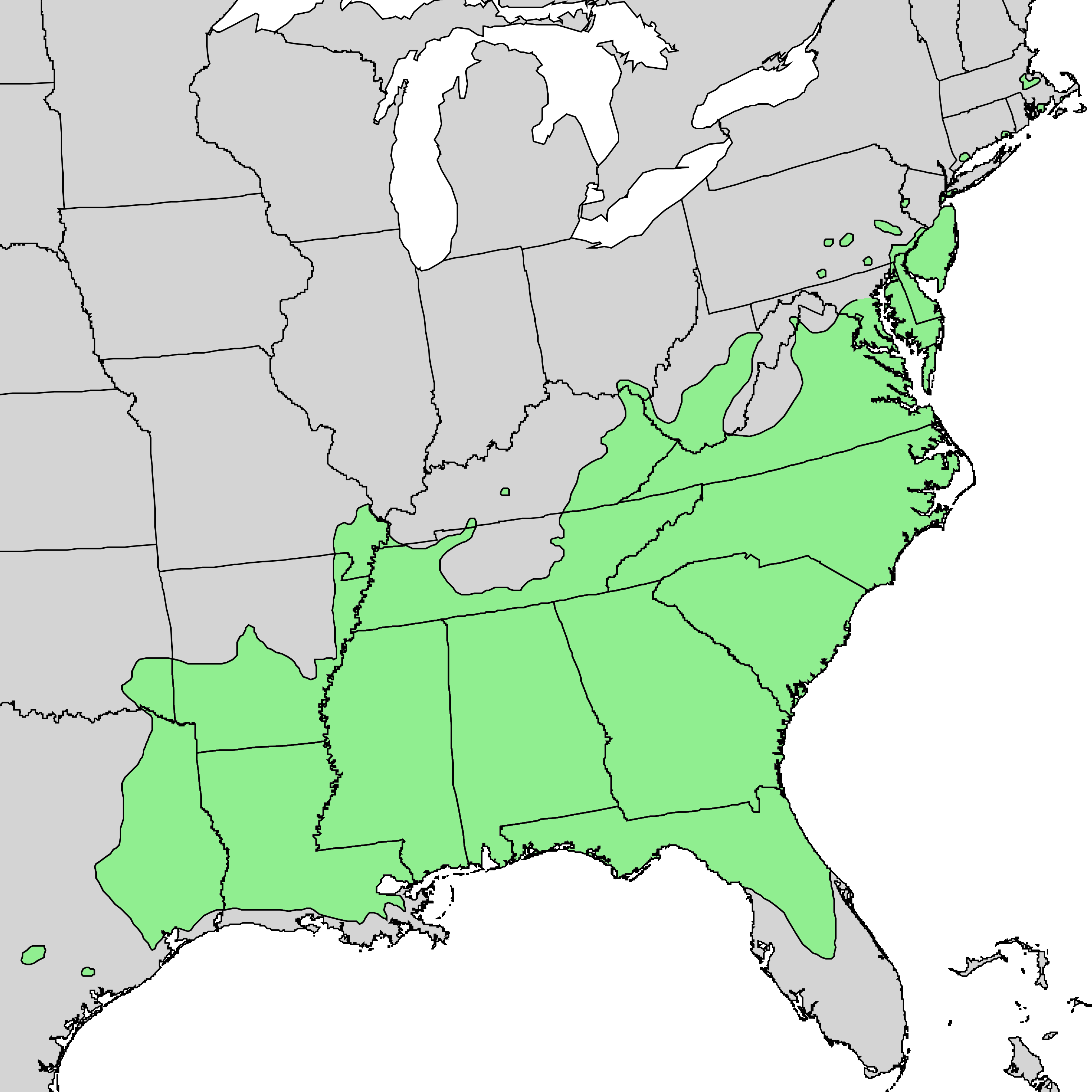 Natural distribution map for Ilex opaca (American holly)